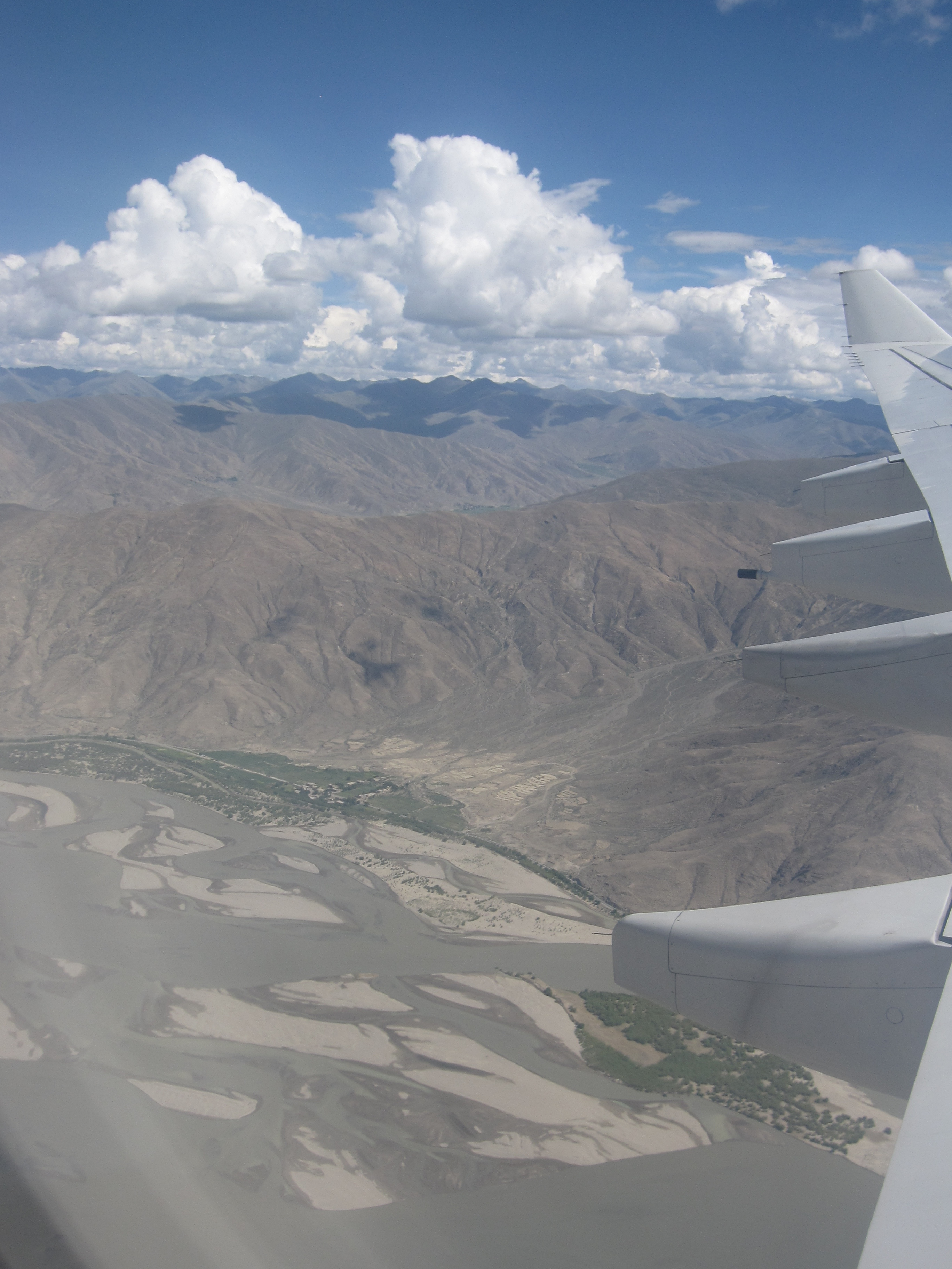 Yarlung Tsangbo, 65 kilometres soutwest of Lhasa, Tibet